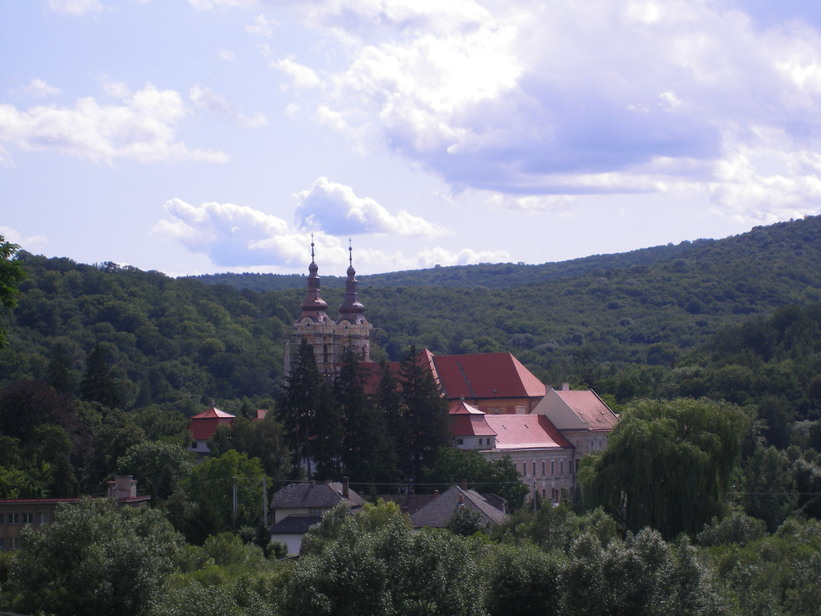 Jasov - general view of the abbey from east